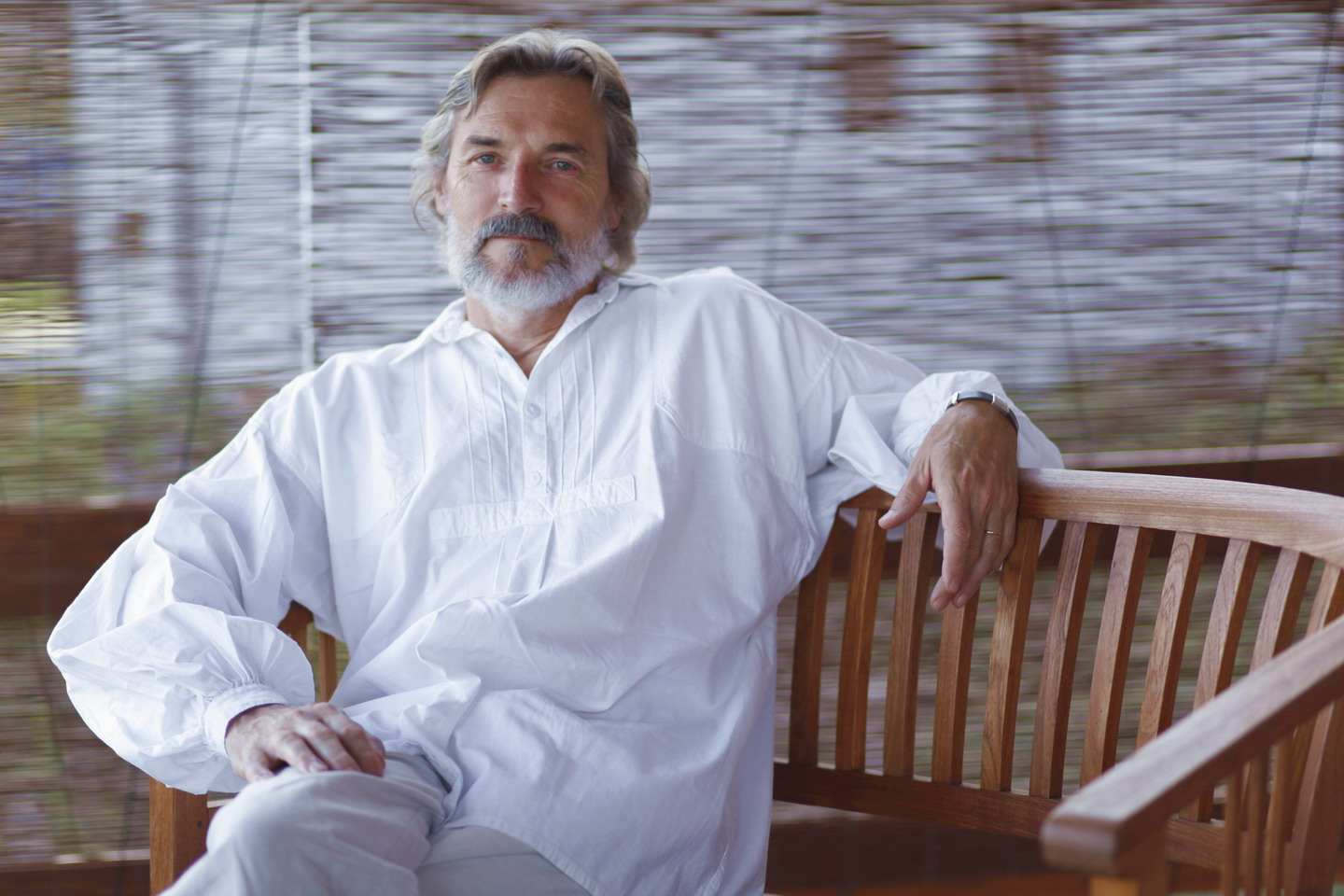 Balázs Boda hungarian painter